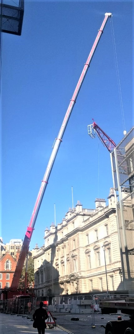 Converting old court building into a hotel, October 2018.